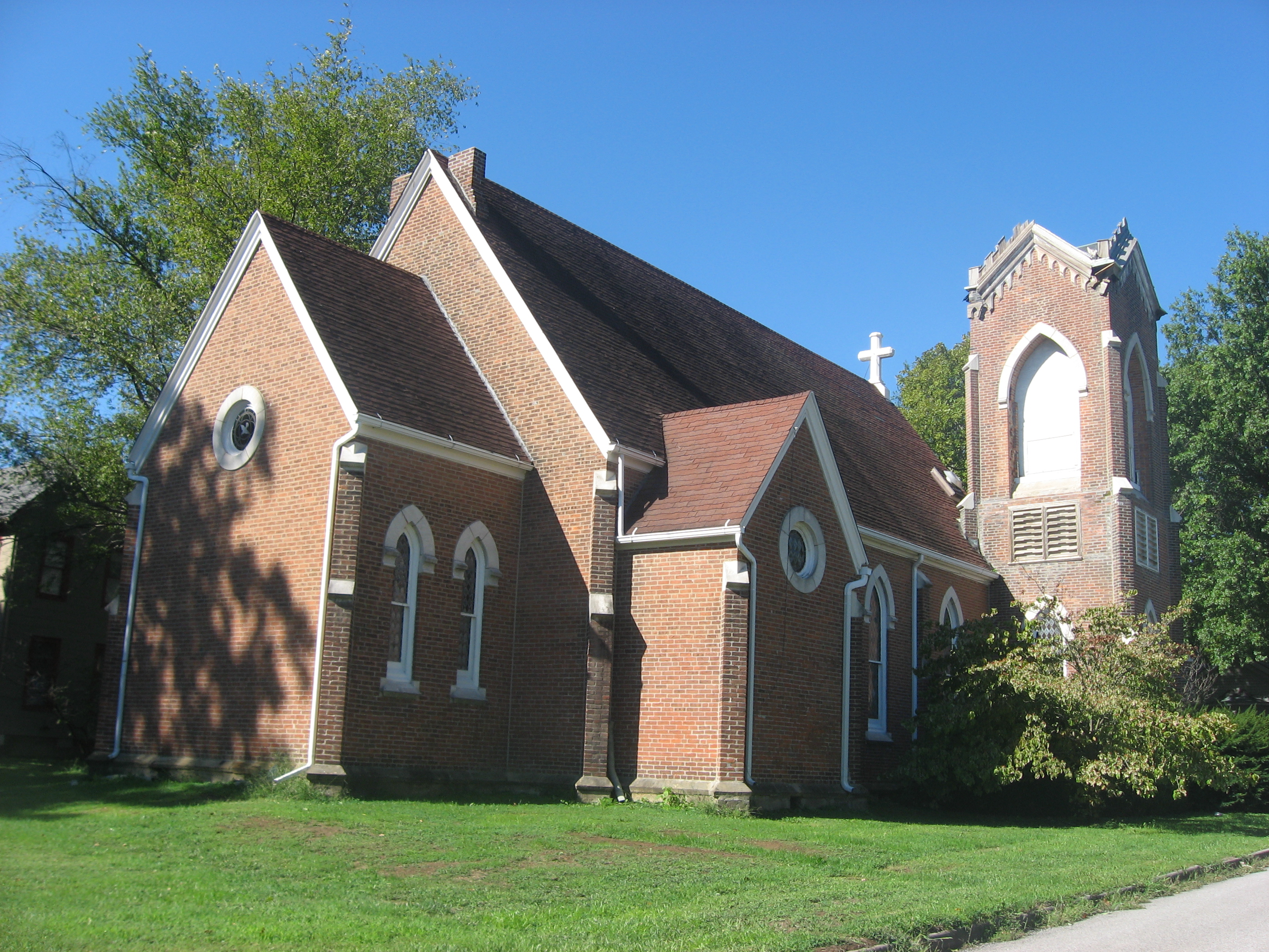 Northern side and rear of the St. James Episcopal Church, located at 111 N. Pearl Street in McLeansboro, Illinois, United States. Built in 1882, it is listed on the National Register of Historic Places.